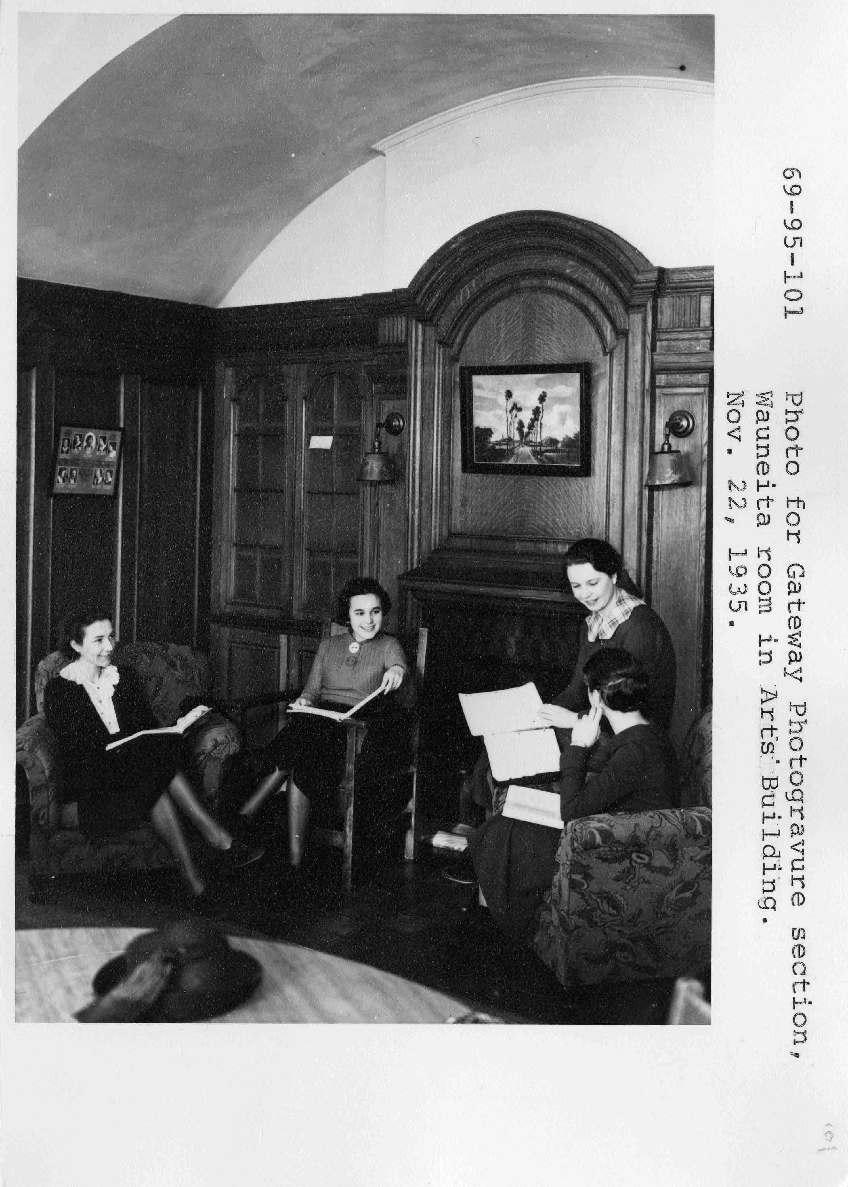 Three women sitting in the Wuaneita Room, a wood-panelled women-only study hall, at the University of Alberta in 1935. Photo taken for the Gateway Photograveure section.